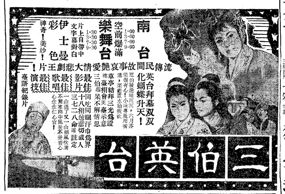 A Newspaper ad on 1963-05-06 of Sam-pek Eng-tai (1963 film) on the Tai-oan Bin-seng Jit-po (台灣民聲日報)